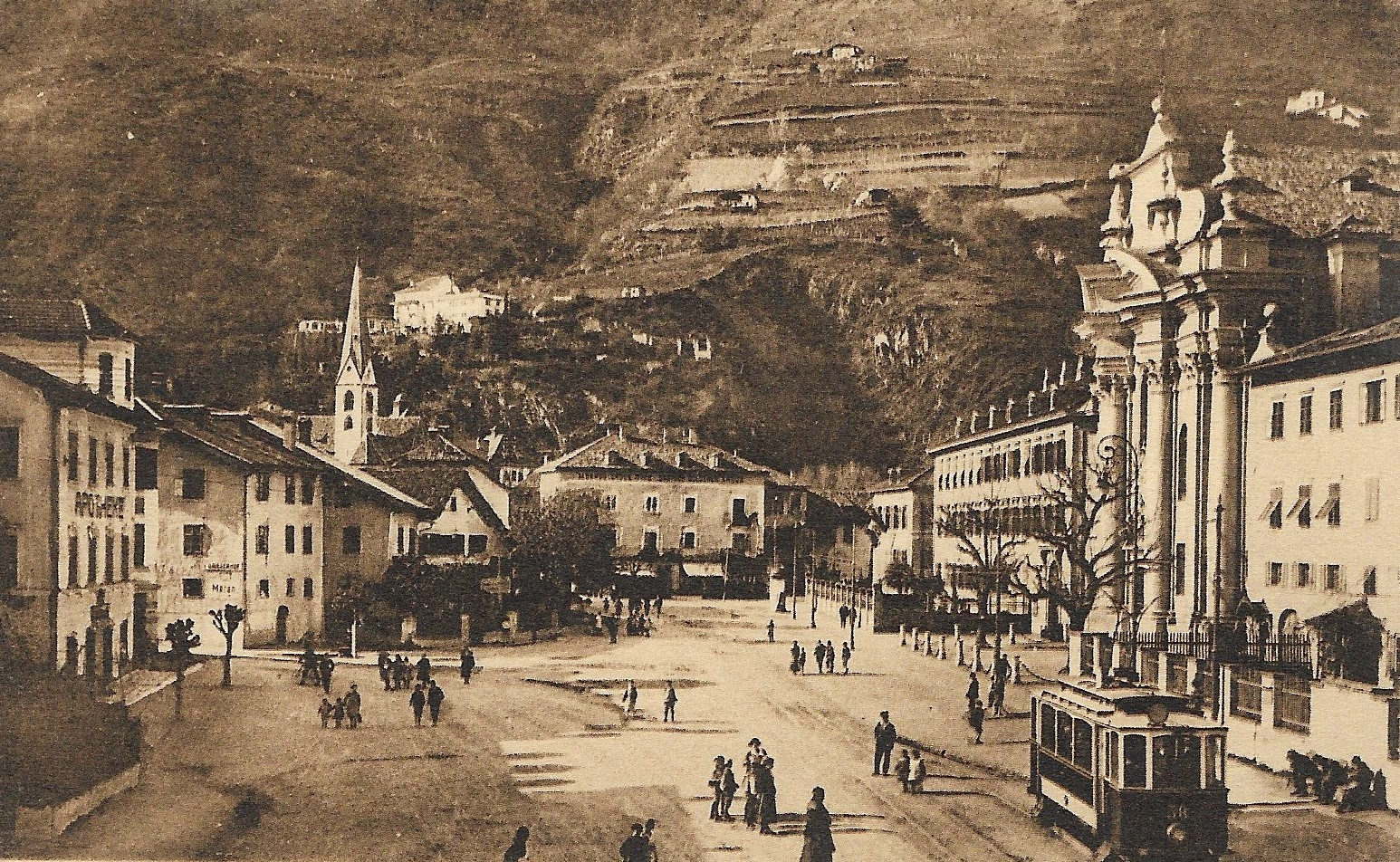 Photograph showing the Grieser Platz (Gries square) in Bozen-Bolzano, 1927